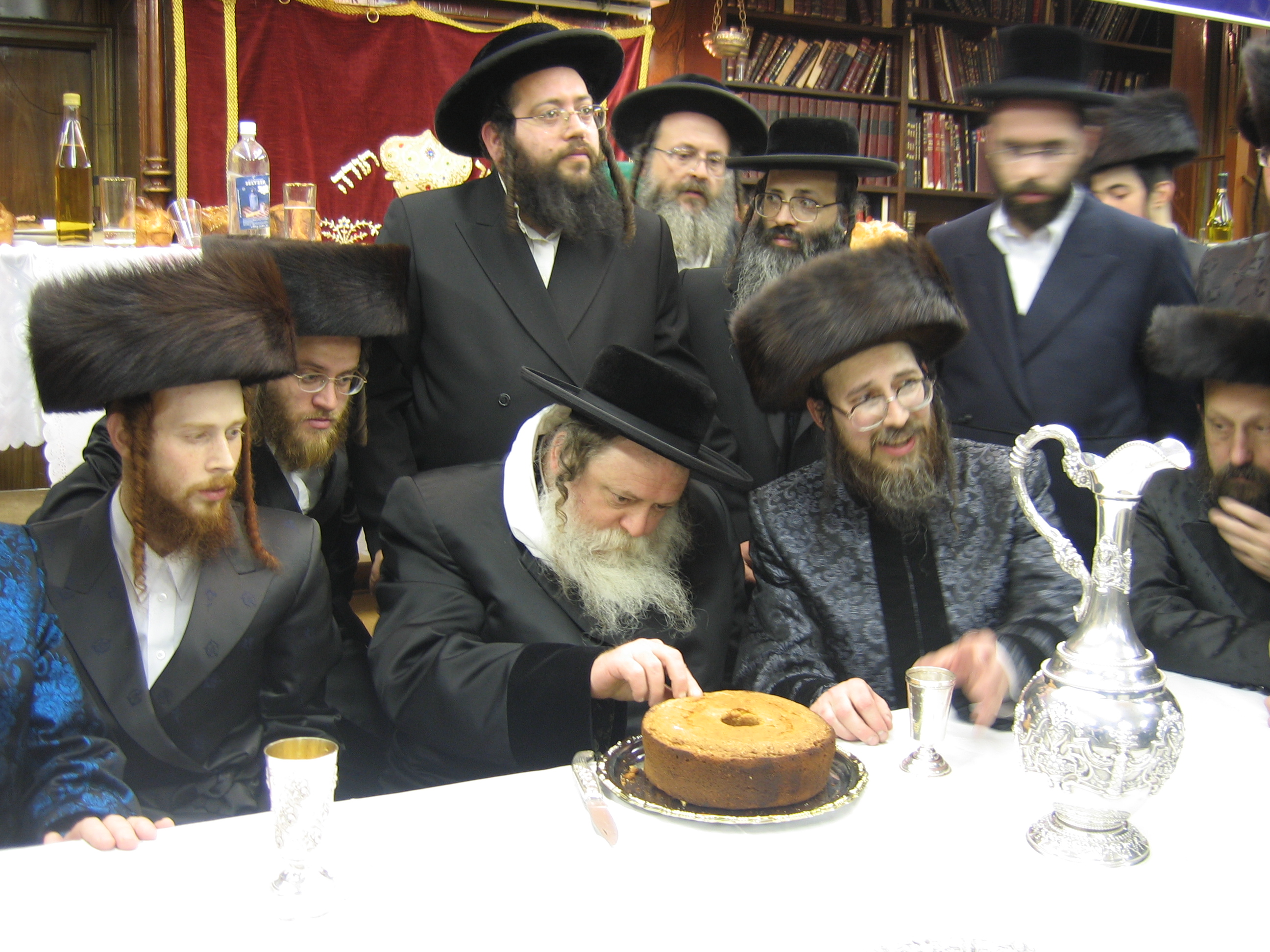 Mosholu Library